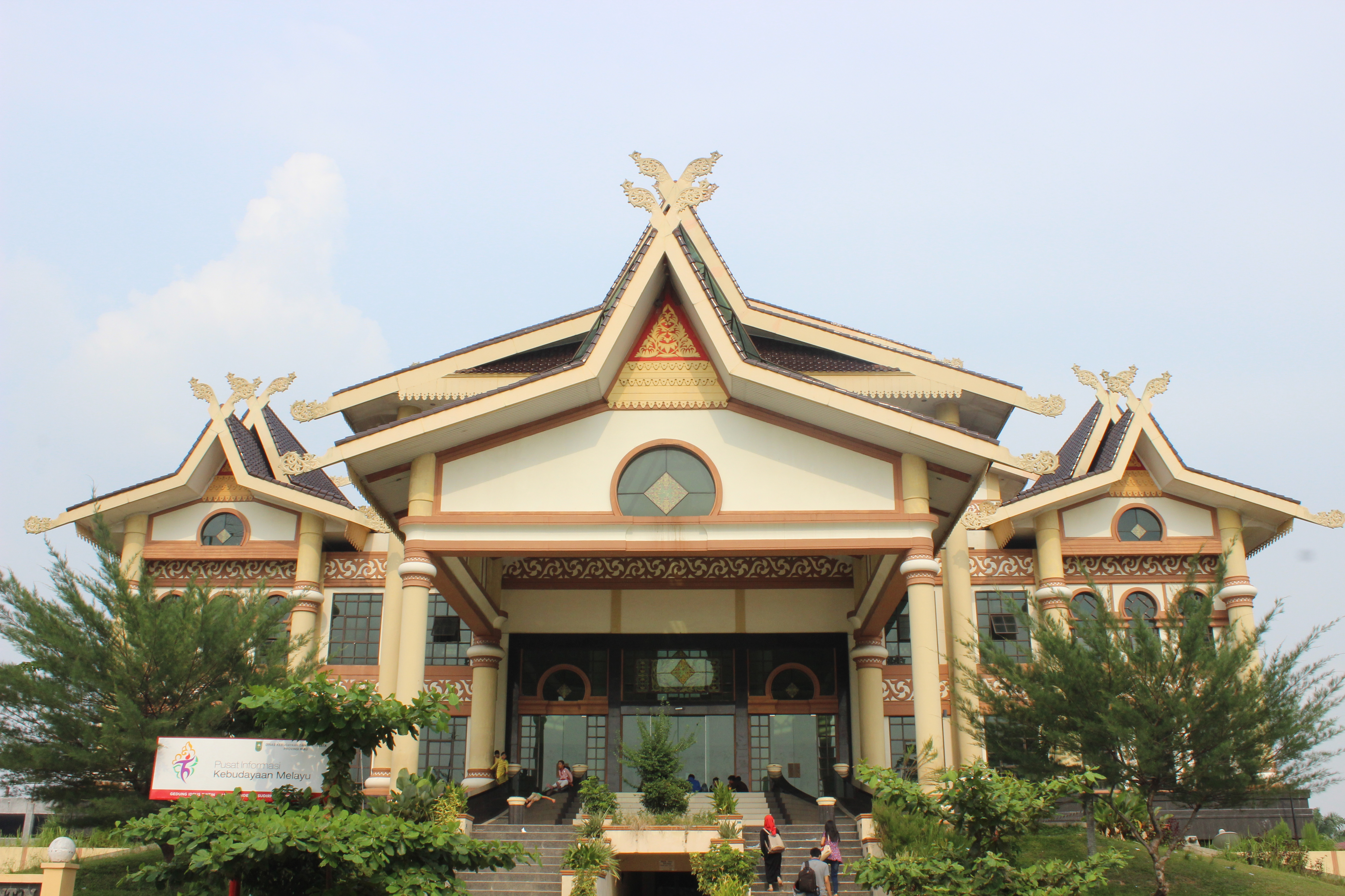 Anjung Seni Idrus Tintin, named after Riau culturist Idrus Tintin, designed in Malay style. Located at MTQ Complex, Pekanbaru.